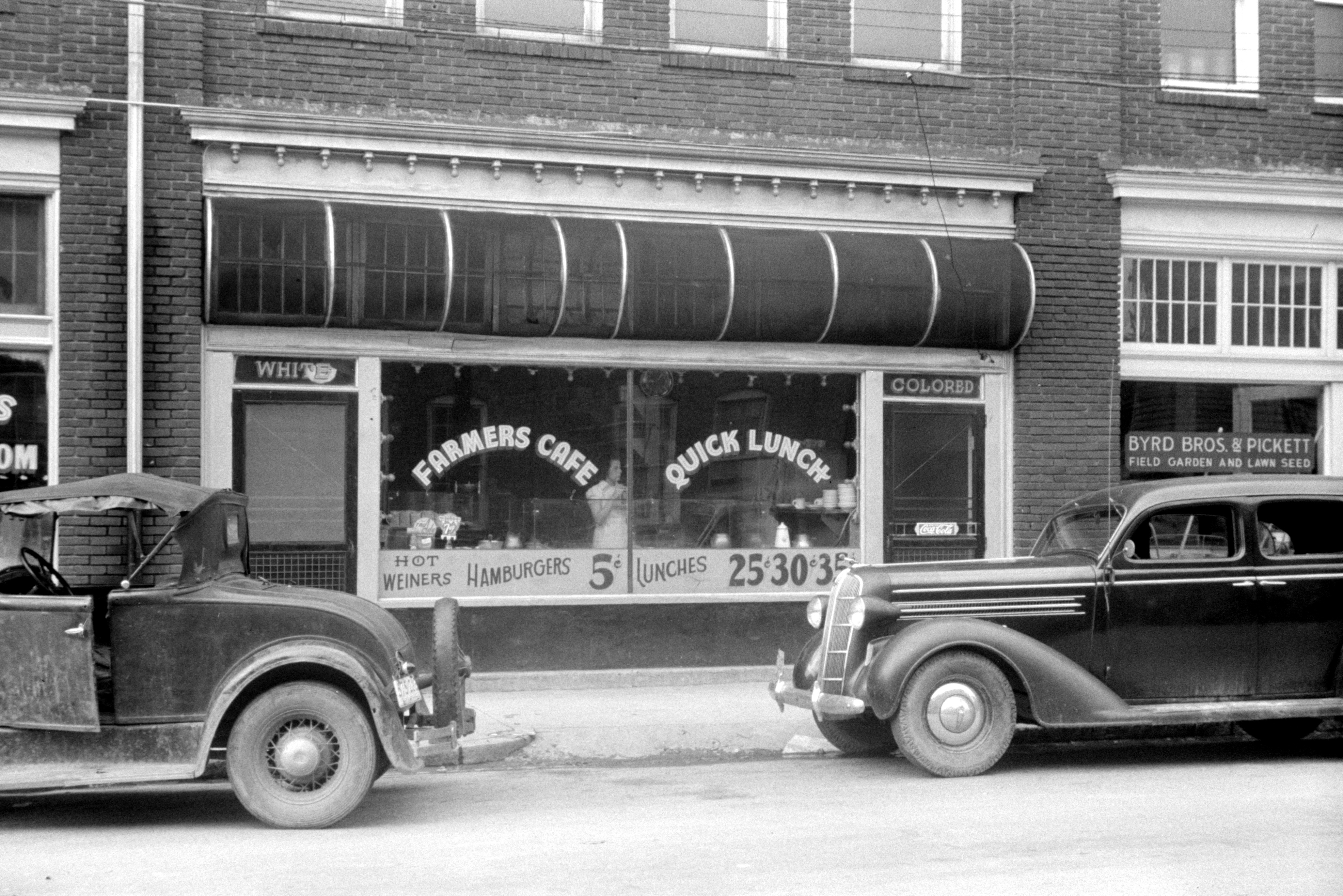 A cafe near the tobacco market, Durham, North Carolina. Signs: Separate doors for "White" and for "Colored." Location: E-9064 Reproduction Number: LC-USF33-20513-M2